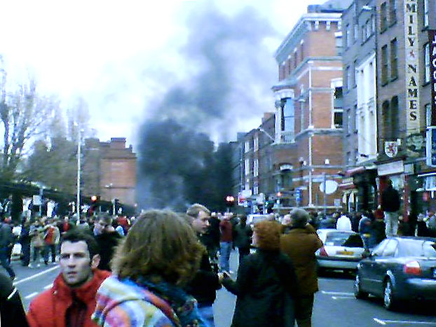 Car on fire during the riots in Dublin, Ireland on Saturday, February 25th, 2006.